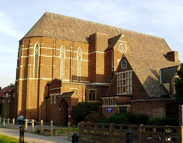 St Francis of Assisi, Isleworth (1934), Great West Road, London